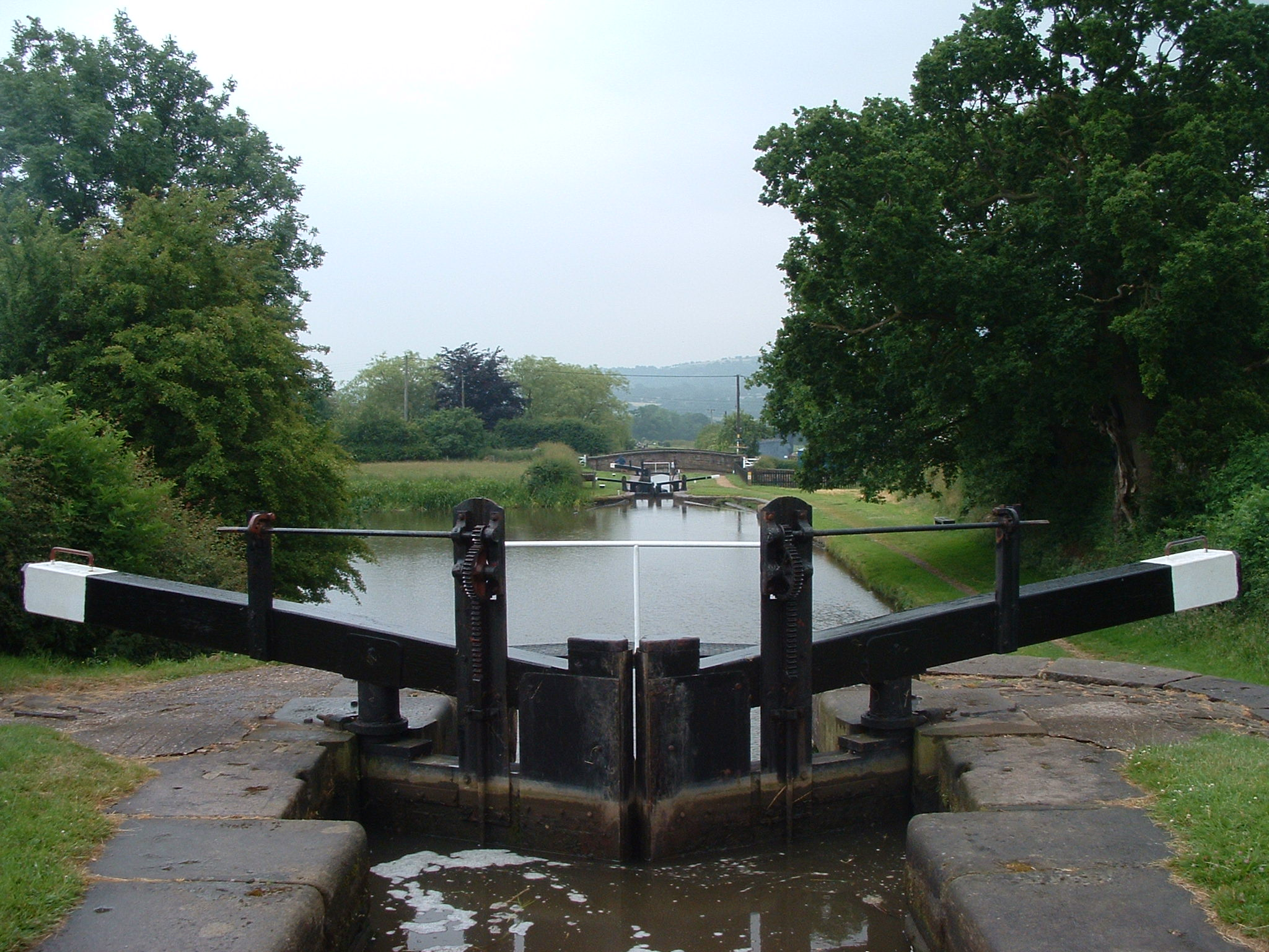 View down from bosley lock 4, showing the double lock doors on both sides of a lock.